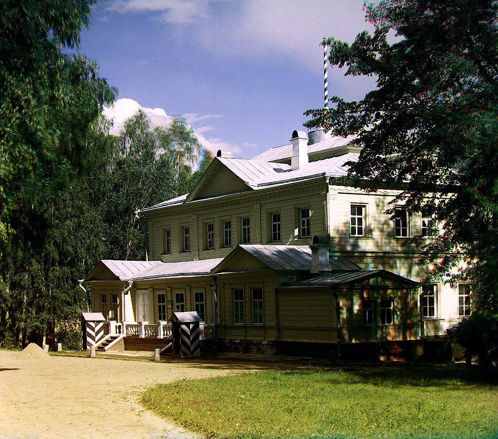 Borodino palace (north facade). 1911, S. M. Prokudin-Gorskiy.